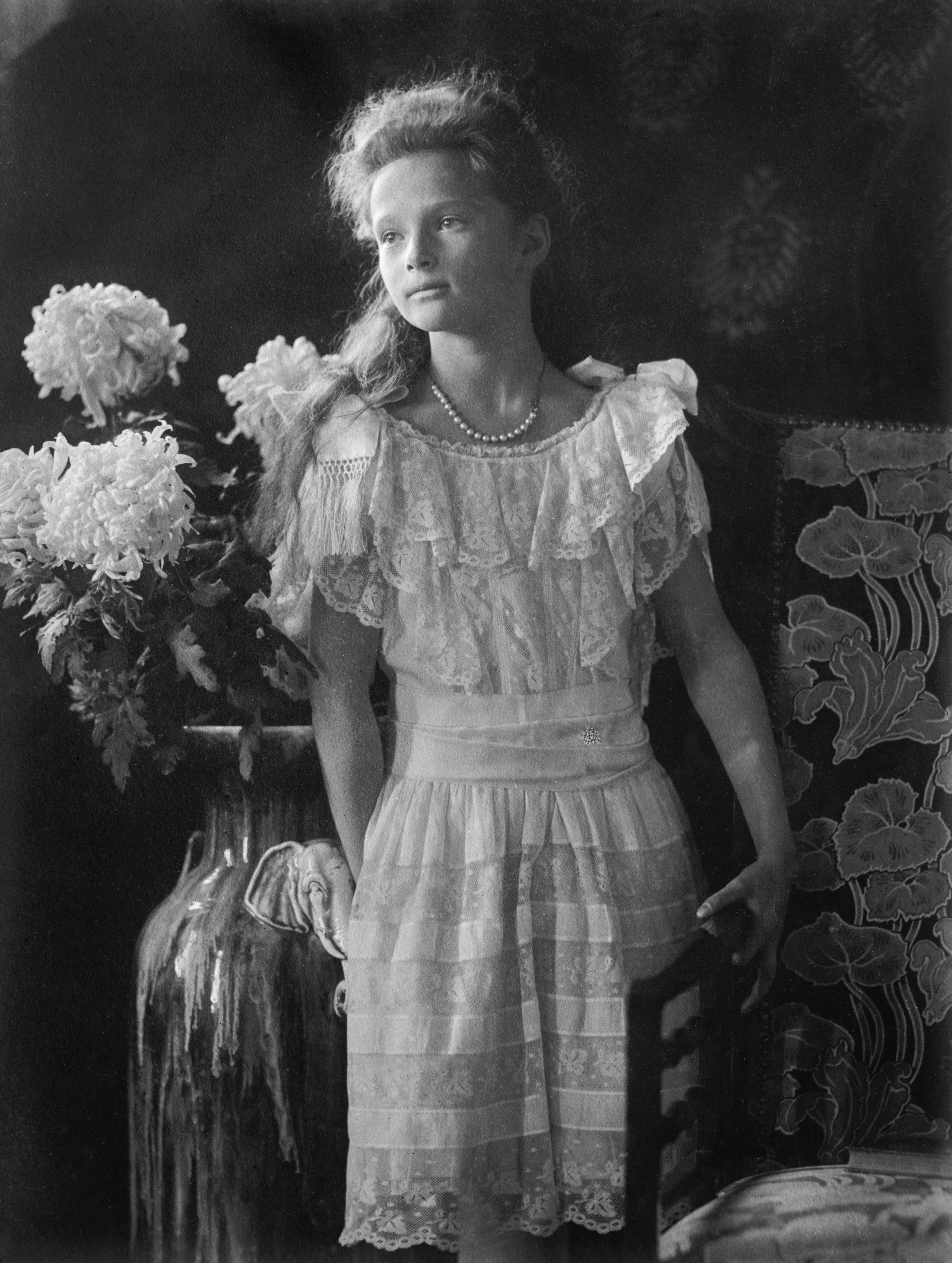 Grand Duchess Tatiana Nikolaevna of Russia (1897-1918) photographed in 1906.